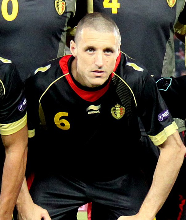 Timmy Simons, cropped from Belgium against the Austrian national football team (0:2), 2011-03-25 in Vienna (Ernst-Happel-Stadion